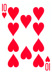 A Playing card: ten of hearts , from poker deck, in small png format.